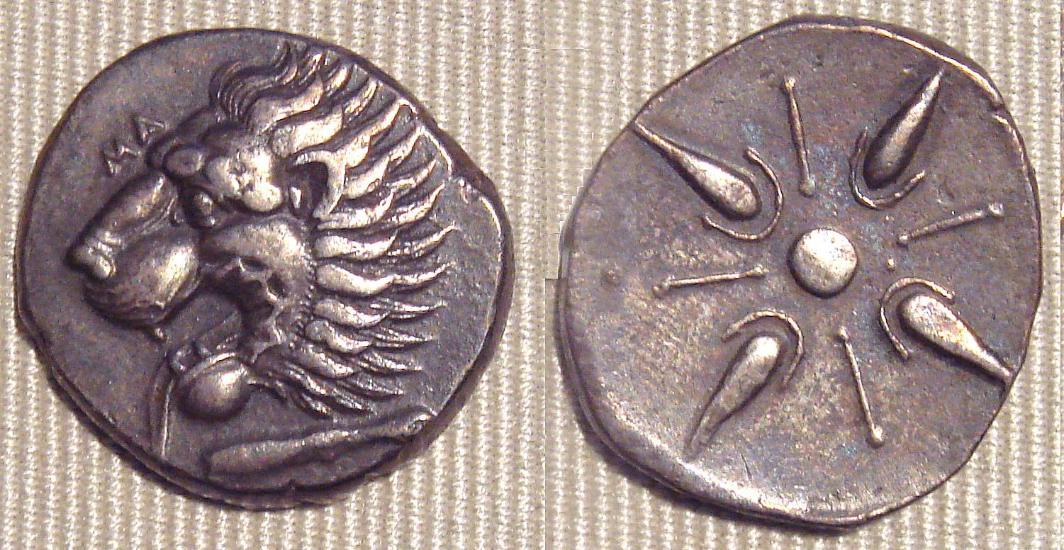 Coin of Mausolus, satrap of Caria.